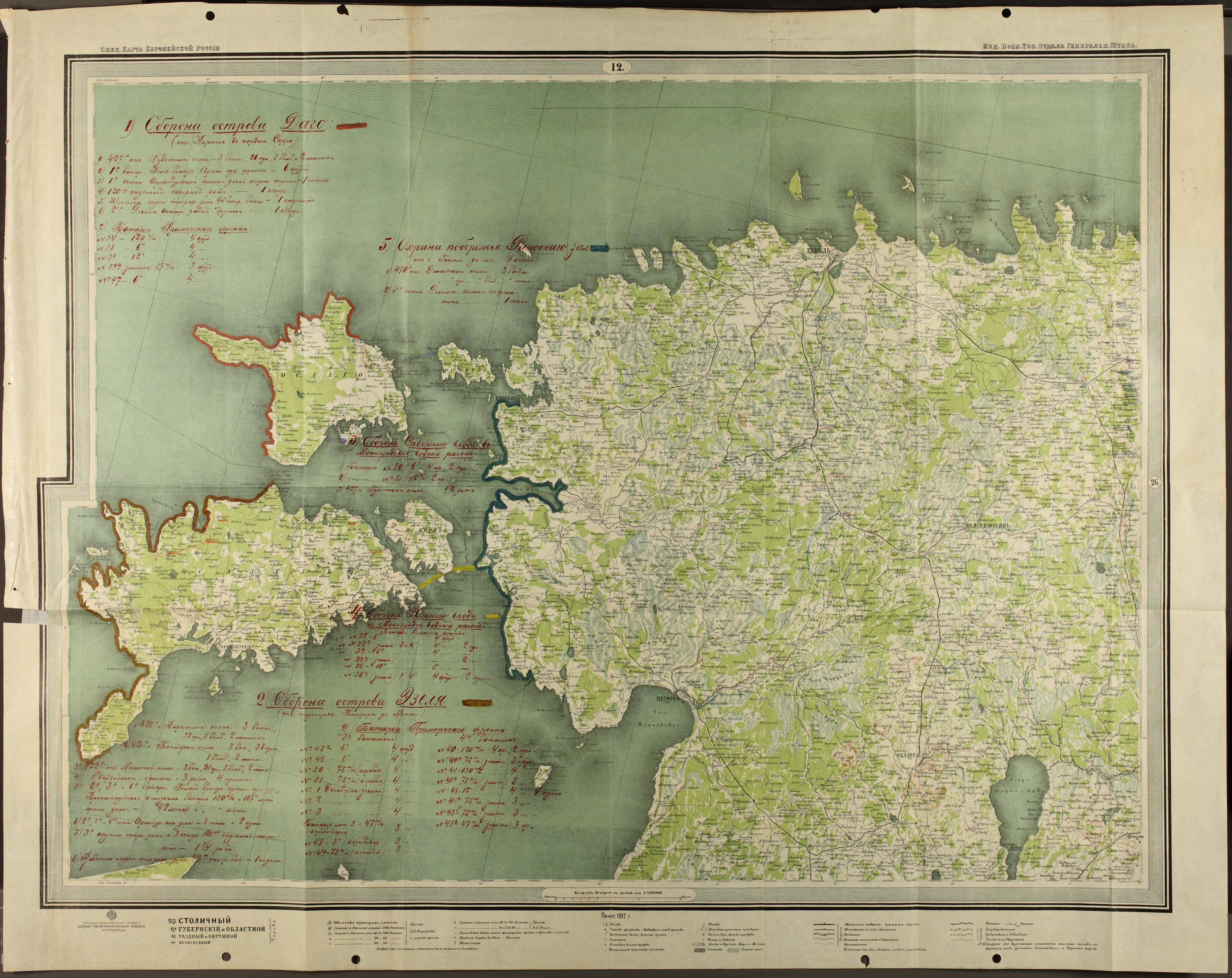 Peter the Great's Naval Fortress Moonsund defence position